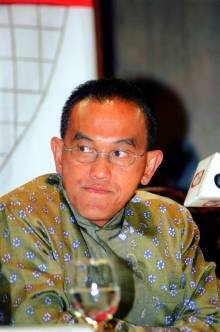 Aburizal Bakrie, Indonesia's Coordinating Minister for People's Welfare